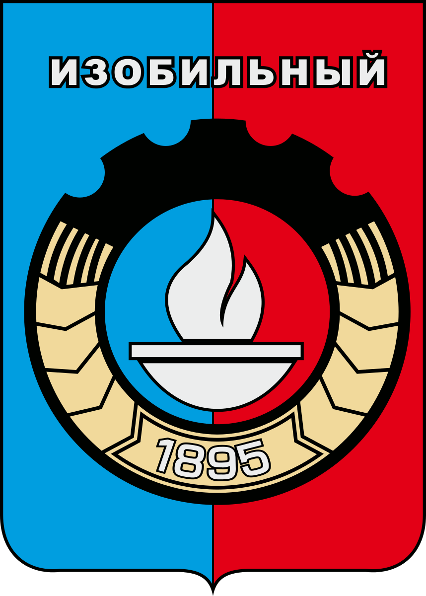 Izobilny (Stavropol krai), coat of arms (1973)